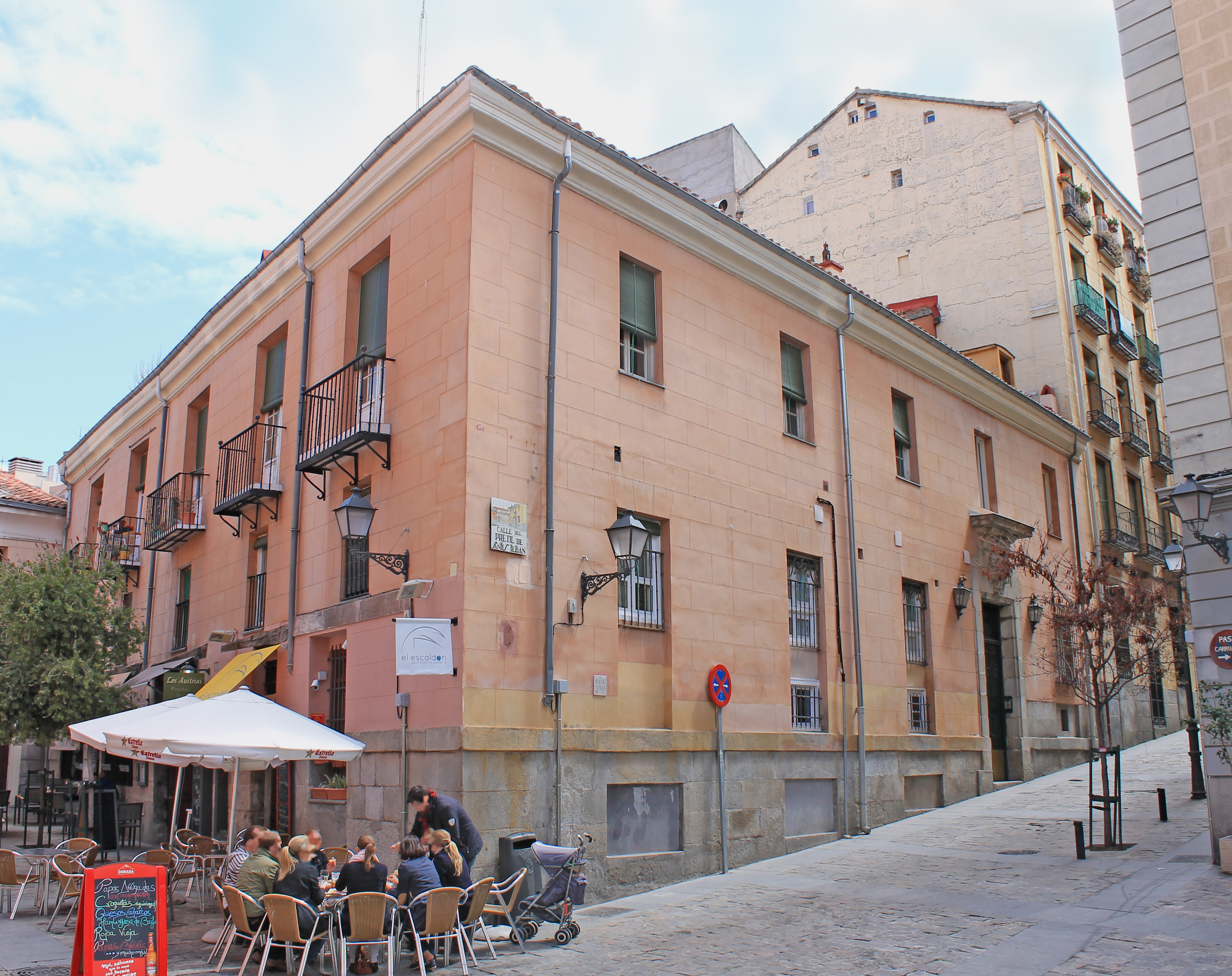 Façade of the former Post House of the Duke of Santiesteban at 17 Calle del Nuncio (street) in Madrid (Spain). It was designed by Gabriel González and built towards 1742.